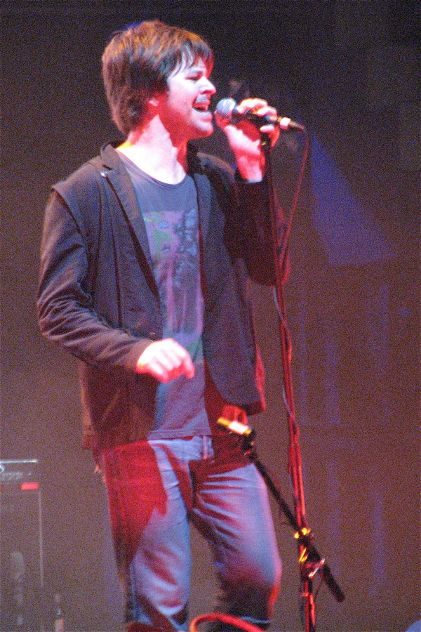 Bernard Fanning performing at the Across the Great Divide Tour on September 8, 2007.